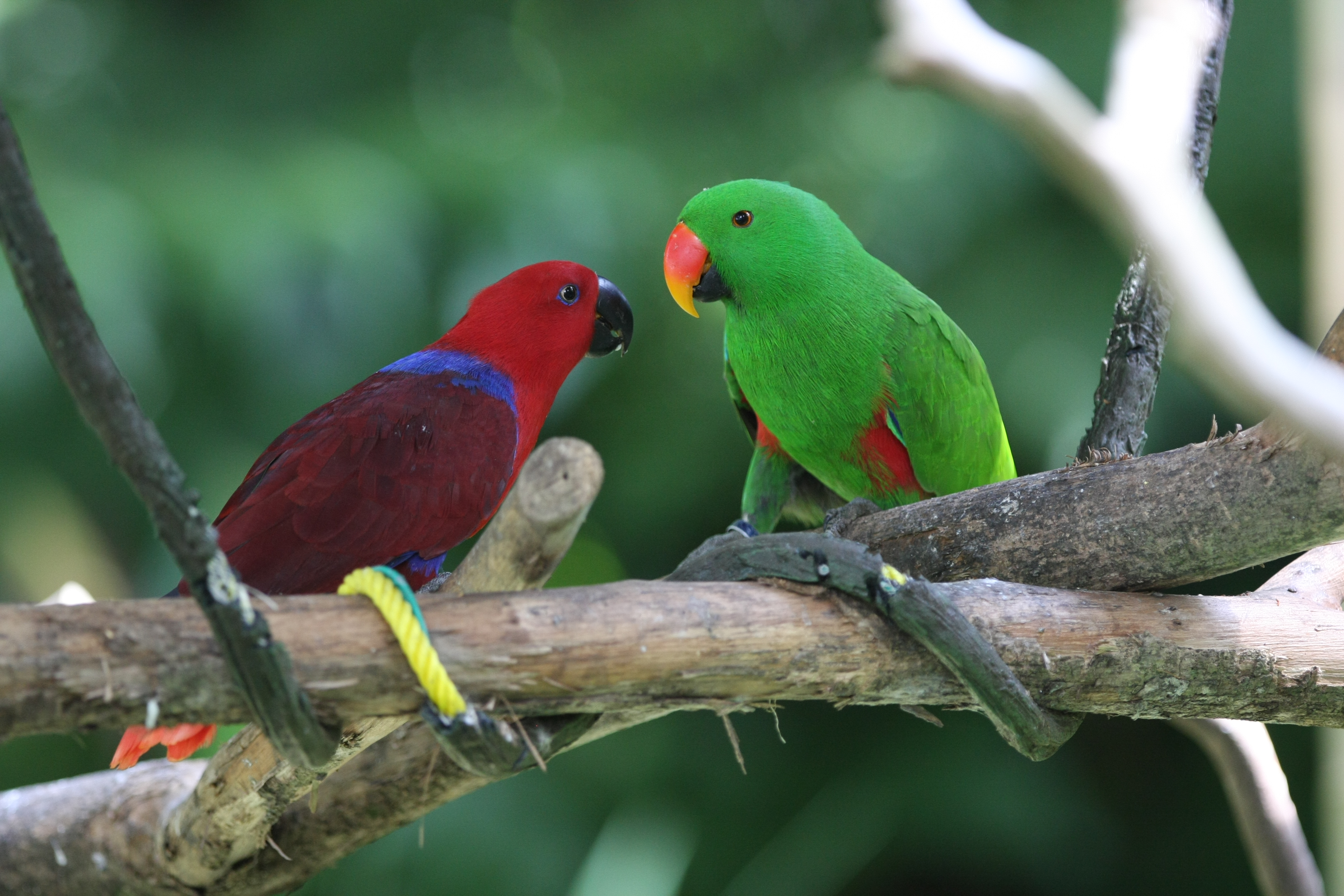 A pair of Eclectus Parrots (Eclectus roratus), the male (right - green colour) and female (left - red colour) of the same species at Singapore Zoo.